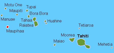 Location of Maupihaa within Society Islands, French Polynesia